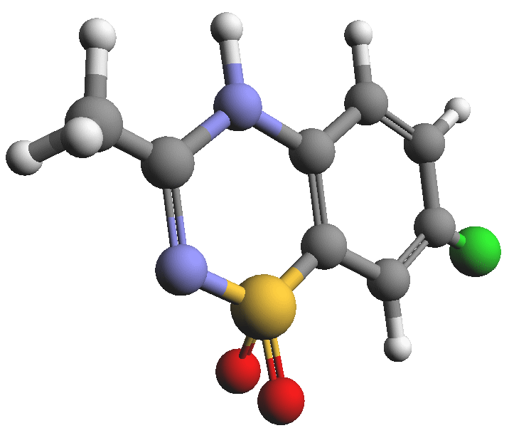 Diazoxide 3d